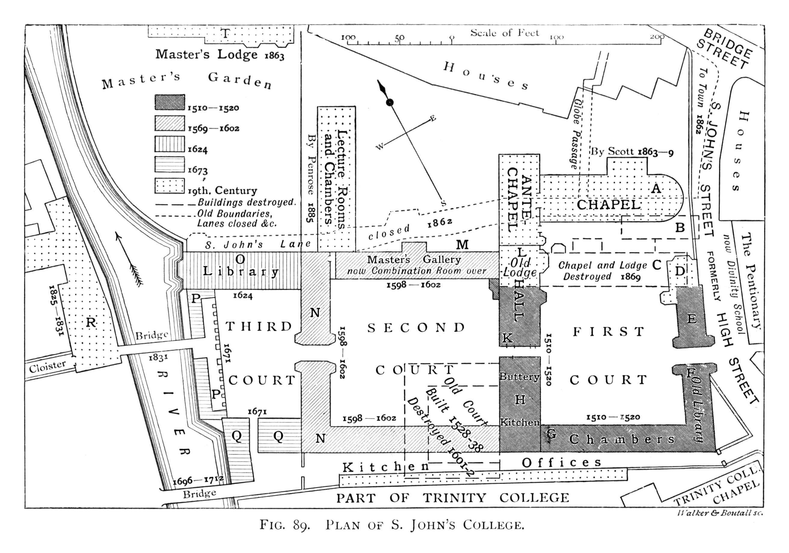 Plan showing the historical architectural development of St John's College, Cambridge